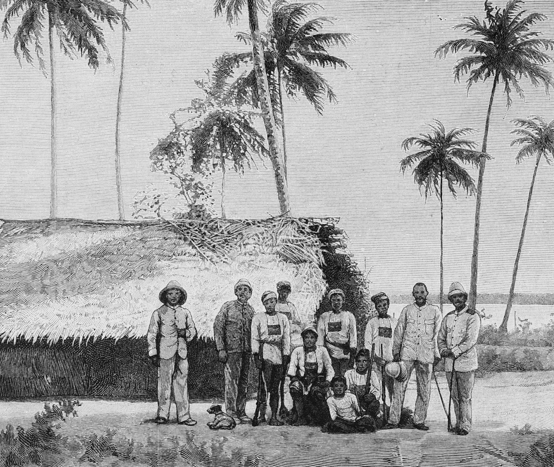 no caption